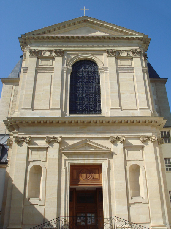 MEP_Chapell_exteriors